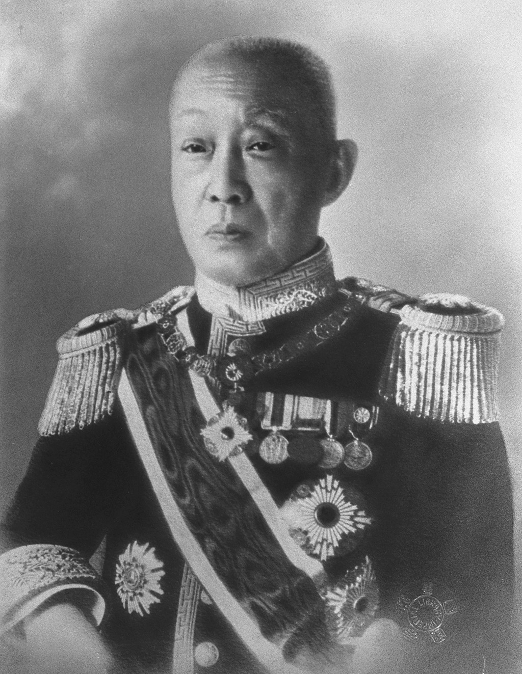 Portrait of Saionji Kinmochi (西園寺公望, 1849 – 1940)